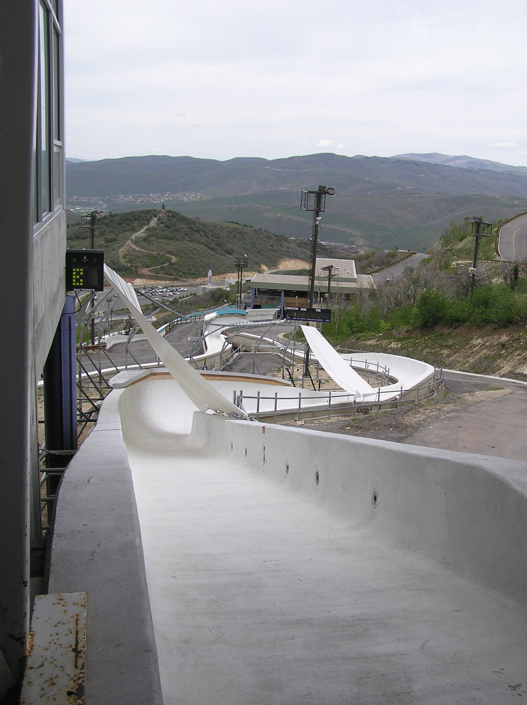 Beginning of bobsled run at Utah Olympic Park